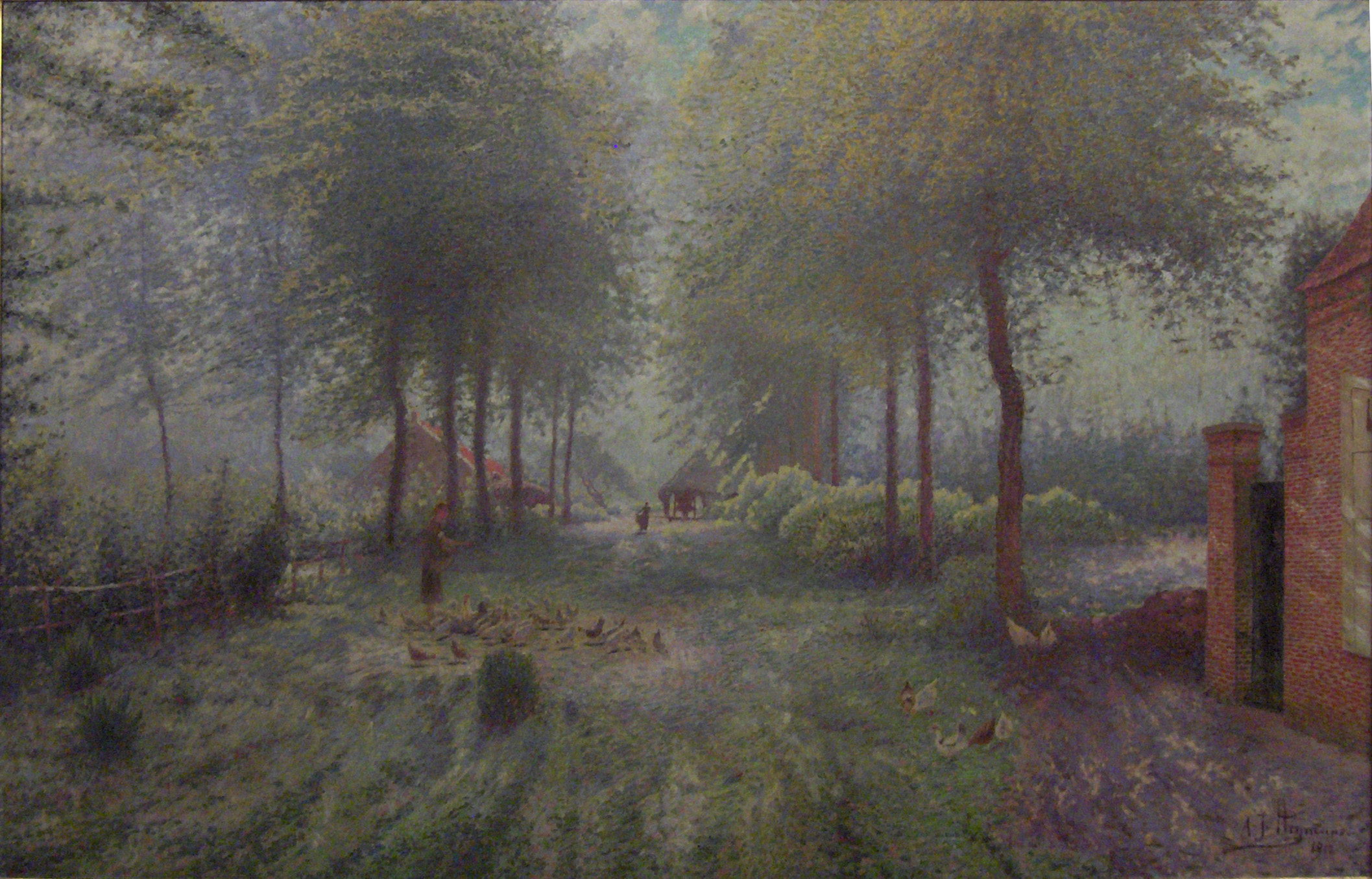 "Summer morning" (1912) by Adrien-Joseph Heymans (1839-1921) Royal Museum of Fine Arts, Brussels, Belgium